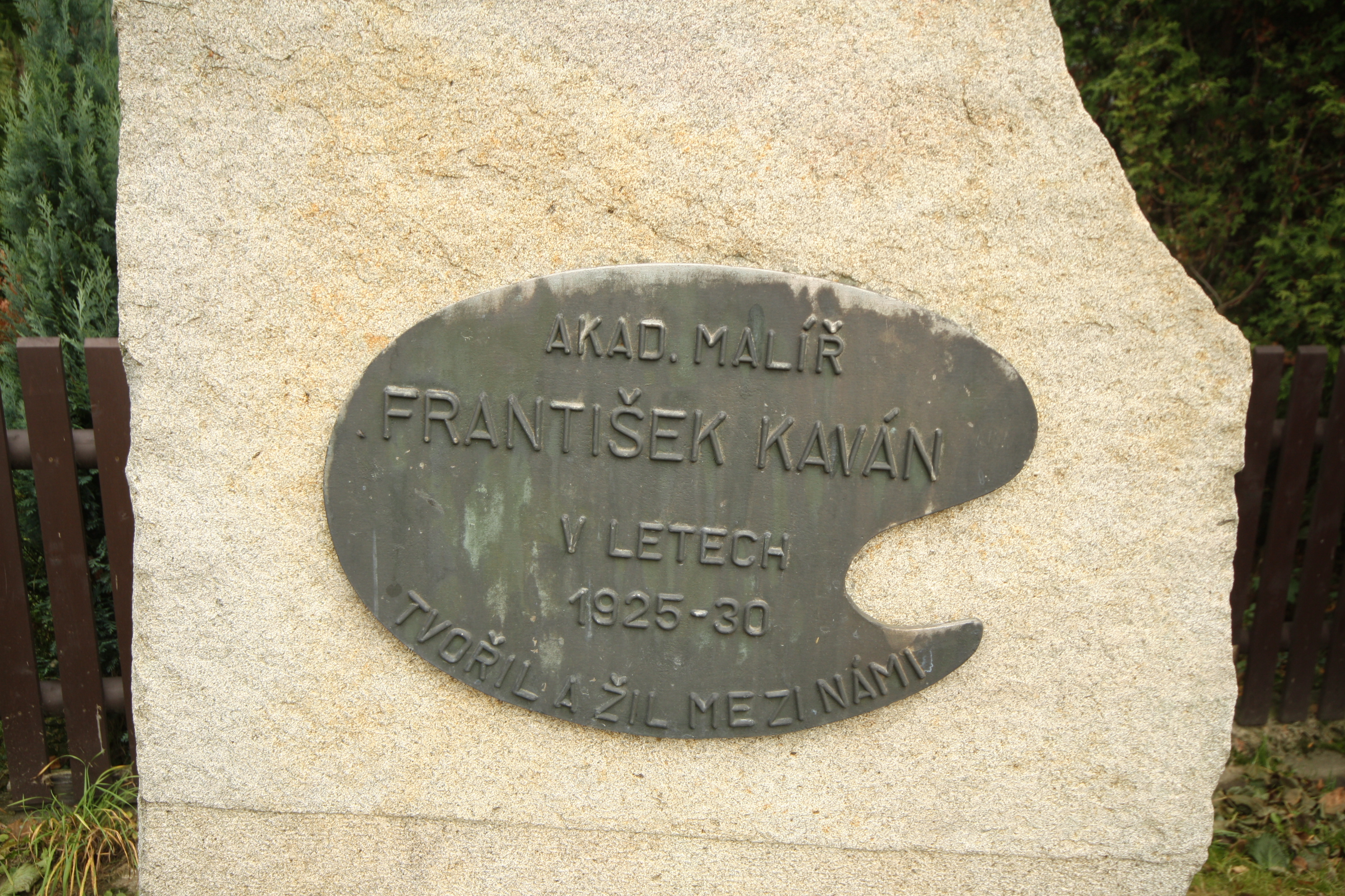 Plaque of Frnatišek Kaván in Svobodné Hamry, Chrudim District.